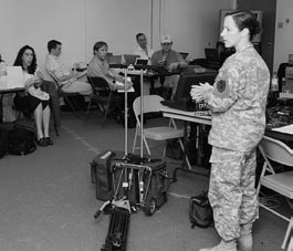 Major Elizabeth Kubala Spokesperson for the Office of Military Commissions - Press briefing.